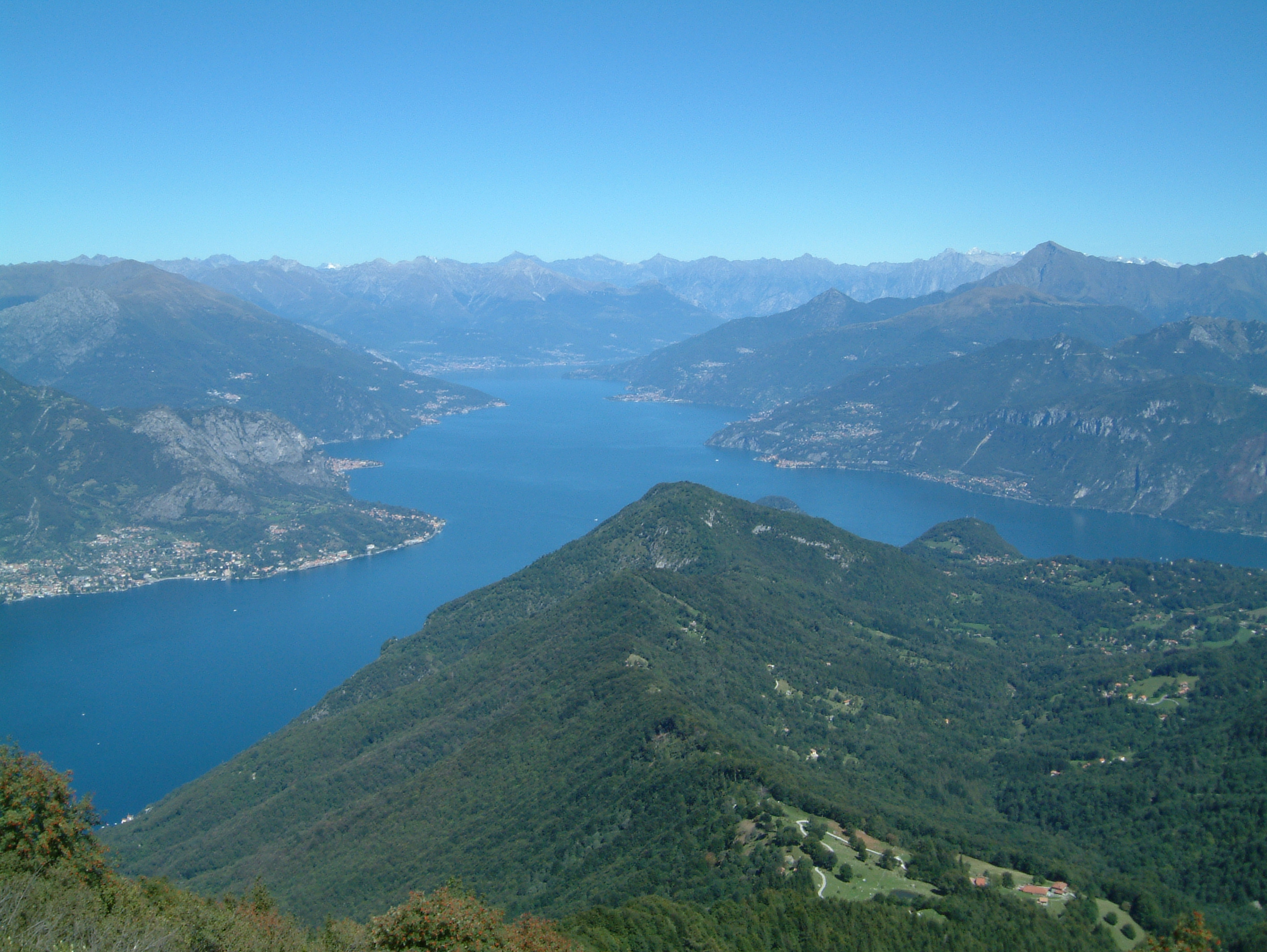 View of Lake Como from Mount San Primo